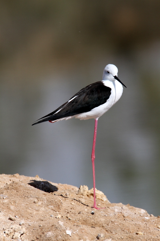 Black-winged Stilt